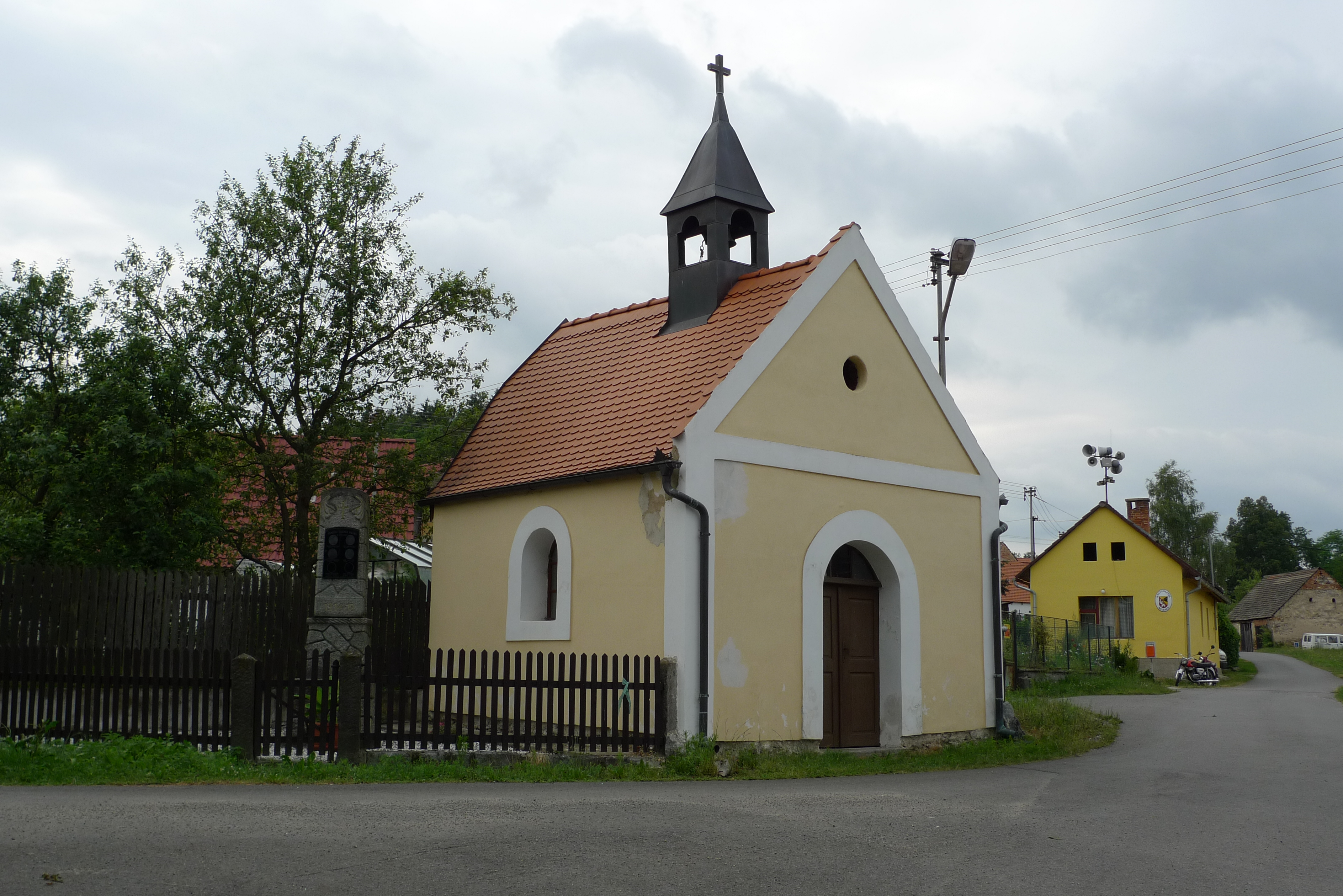 Milčice near Blatná, Czech Republic